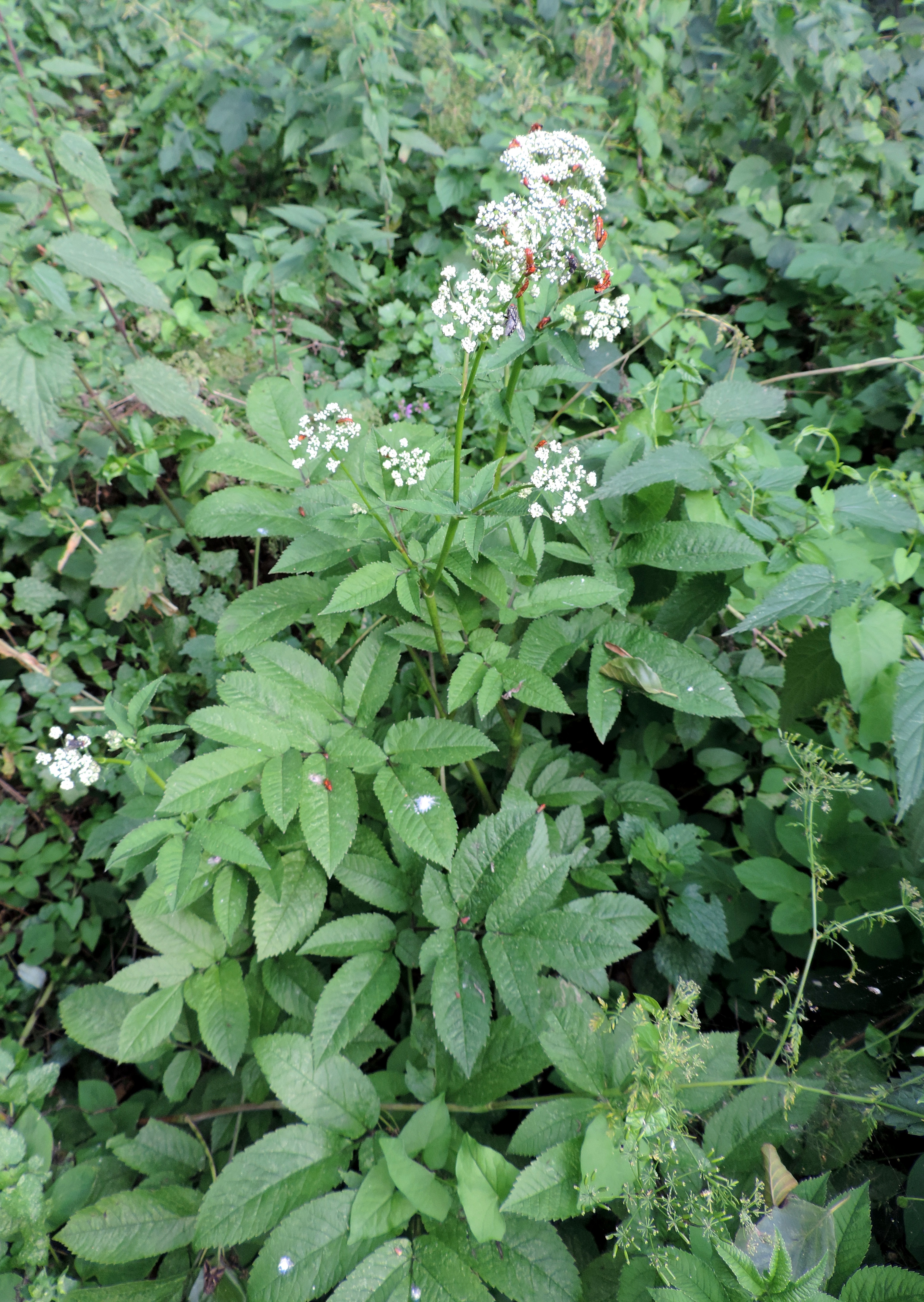 Chaerophyllum aromaticum from vicinity of Wołów (SW Poland)